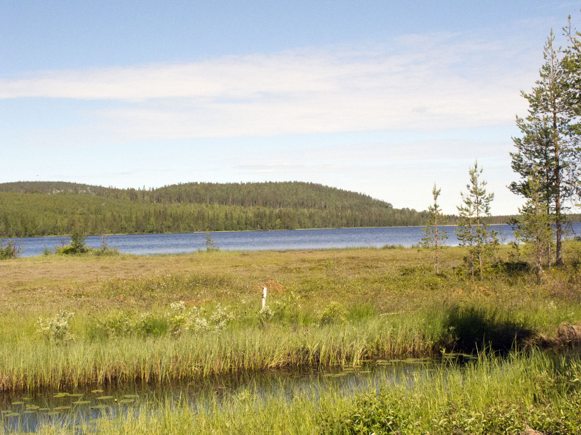 Pirttijärvi floating island in Sweden